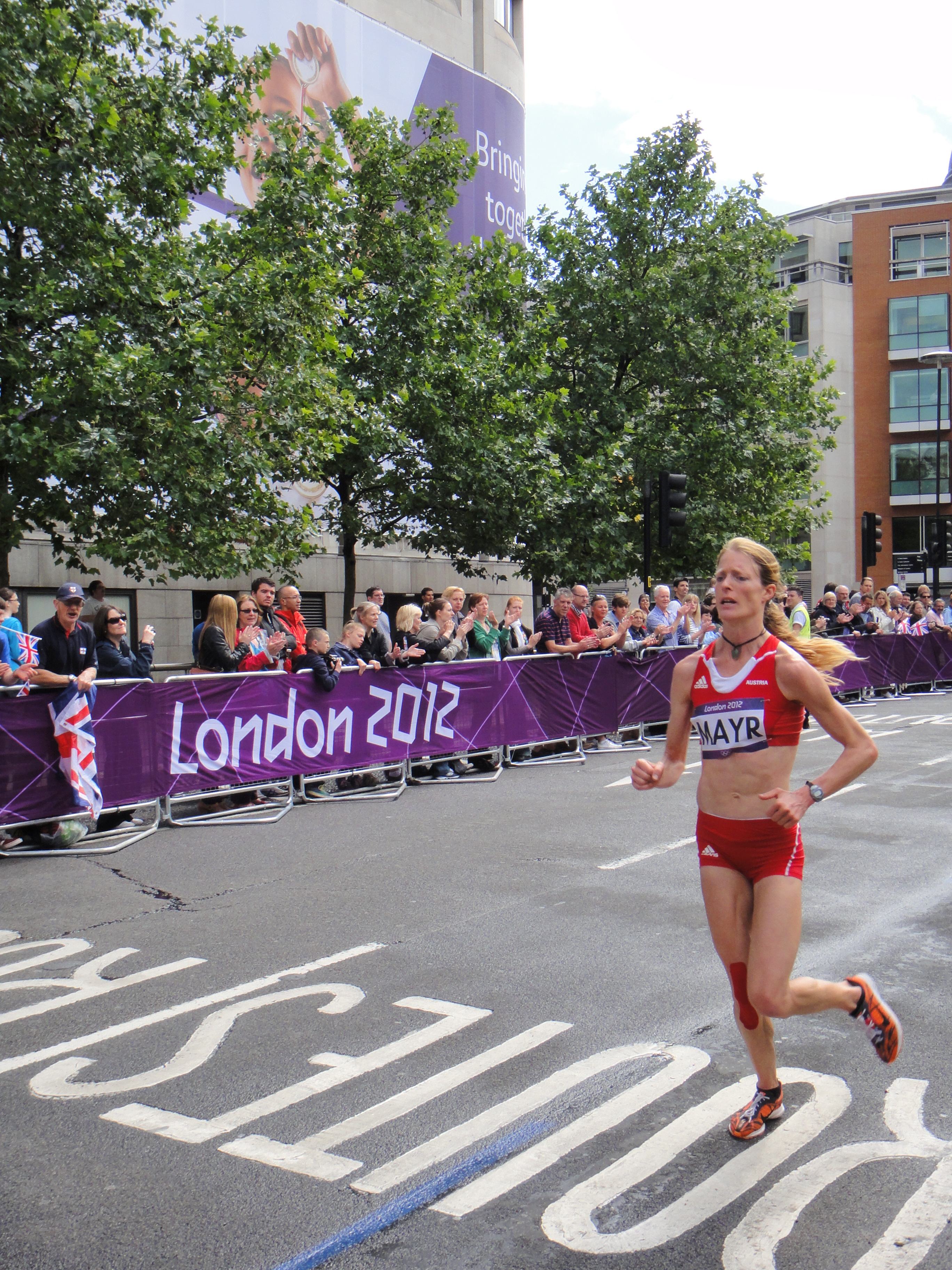 Andrea Mayr (Austria) London 2012 Women's Marathon